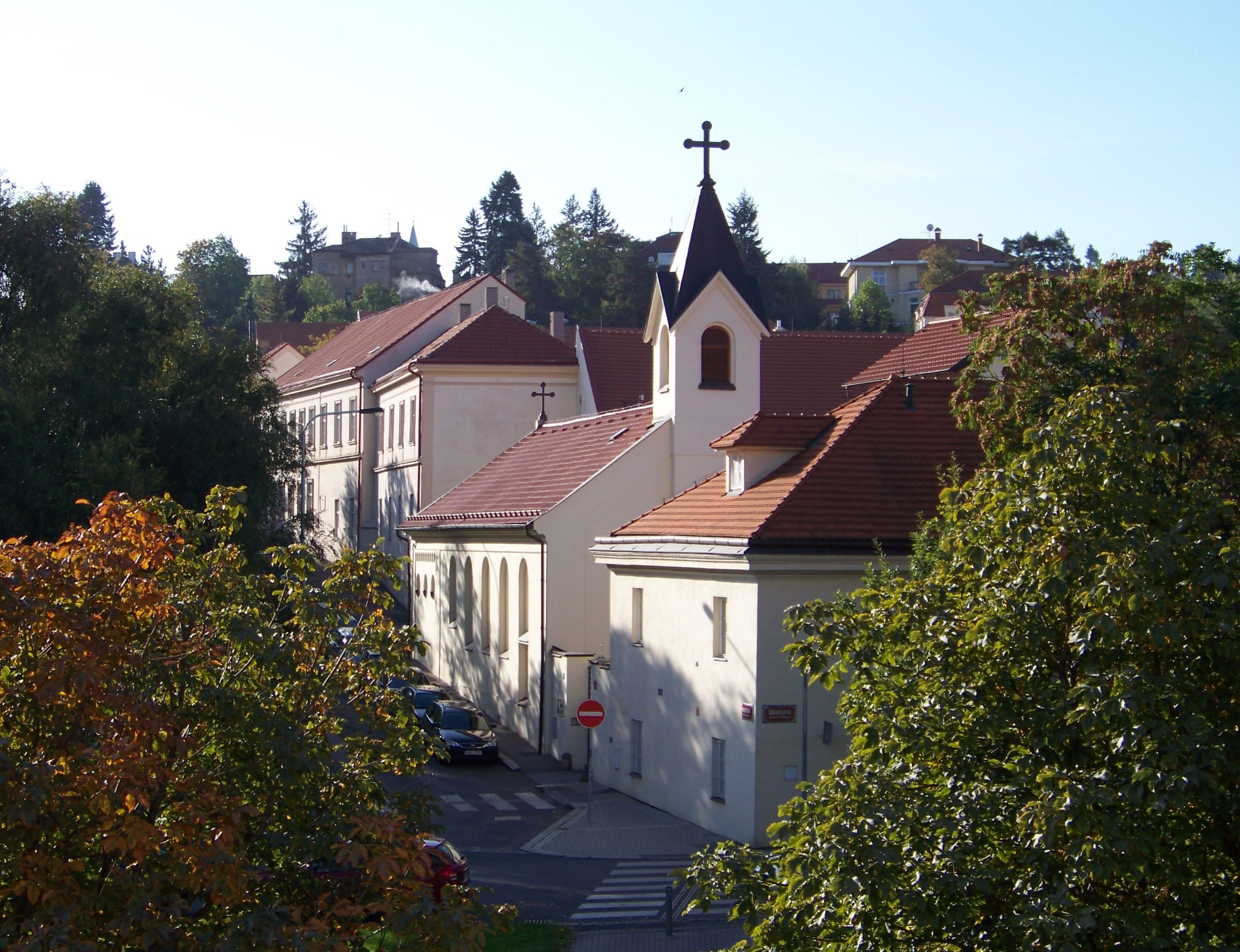 Prague-Dejvice, the Czech Republic. Proboštská street, Provost Court, church of Saint Wenceslaus.